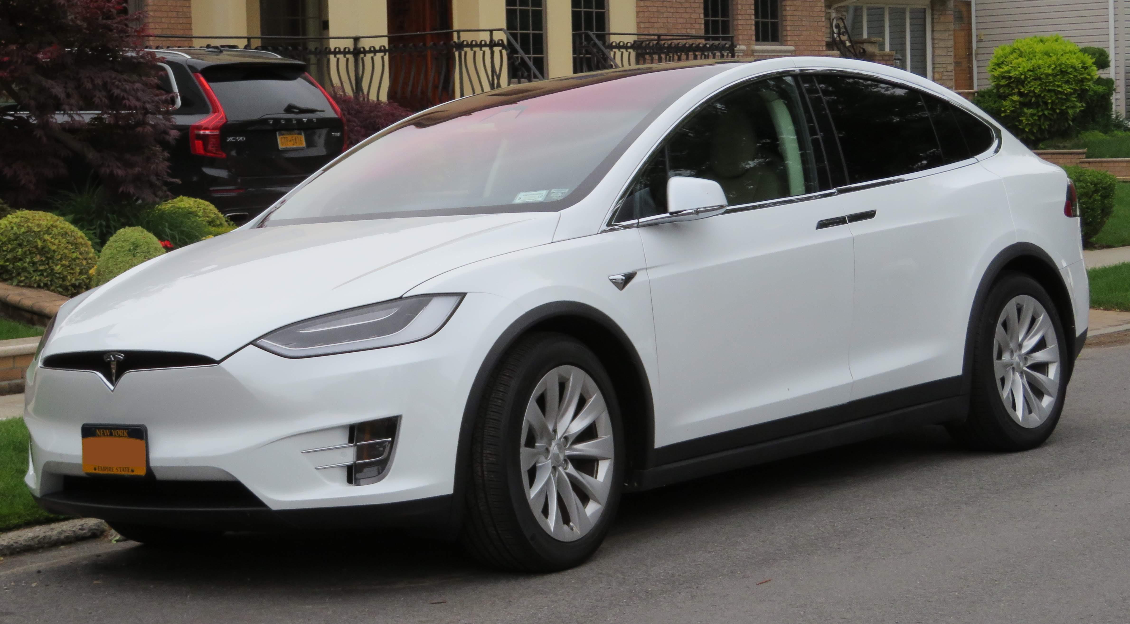 Photographed in Queens, New York